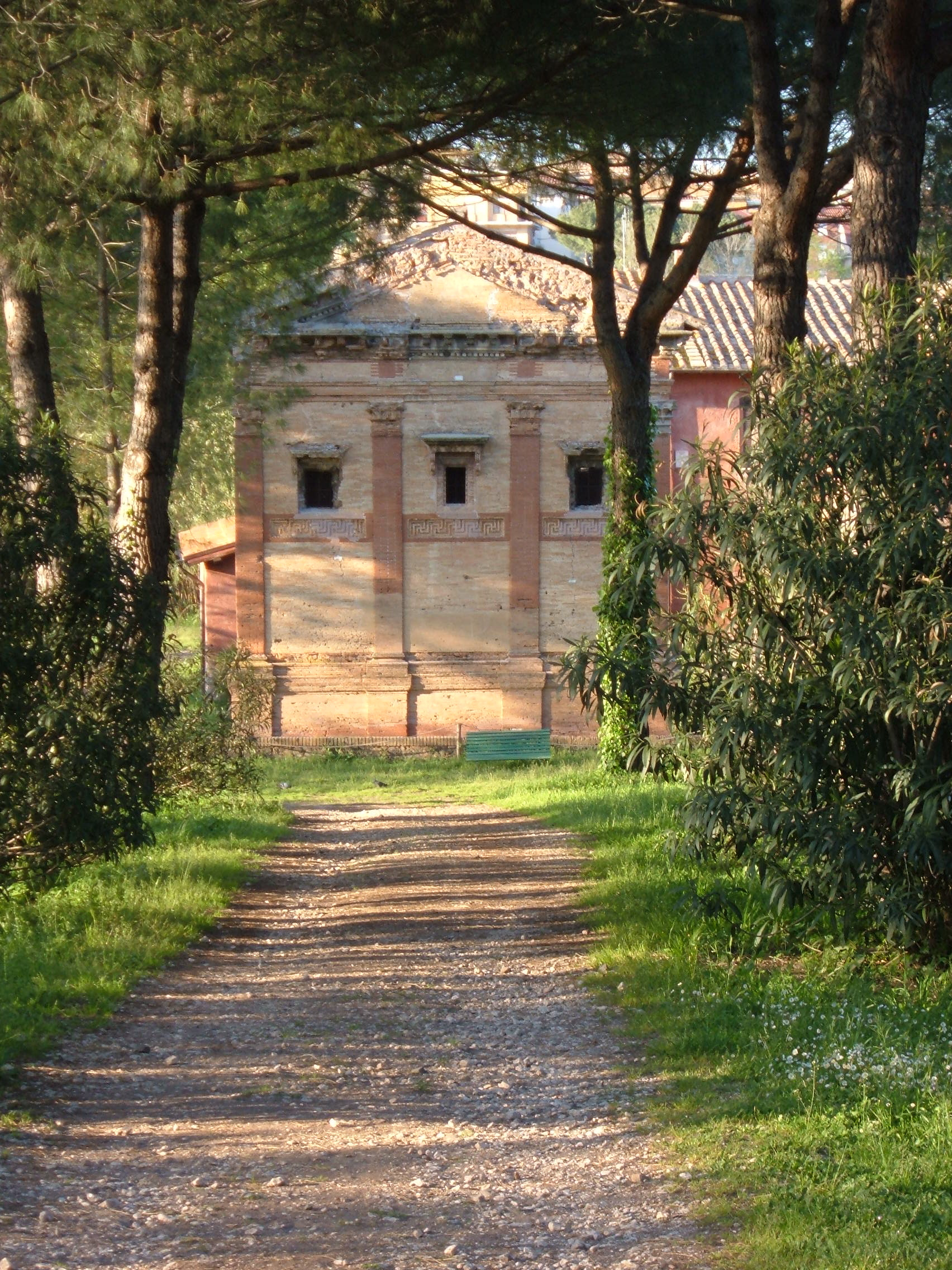 Tomb of Annia Regilla, Parco Appia Antica, 2nd century a.D.